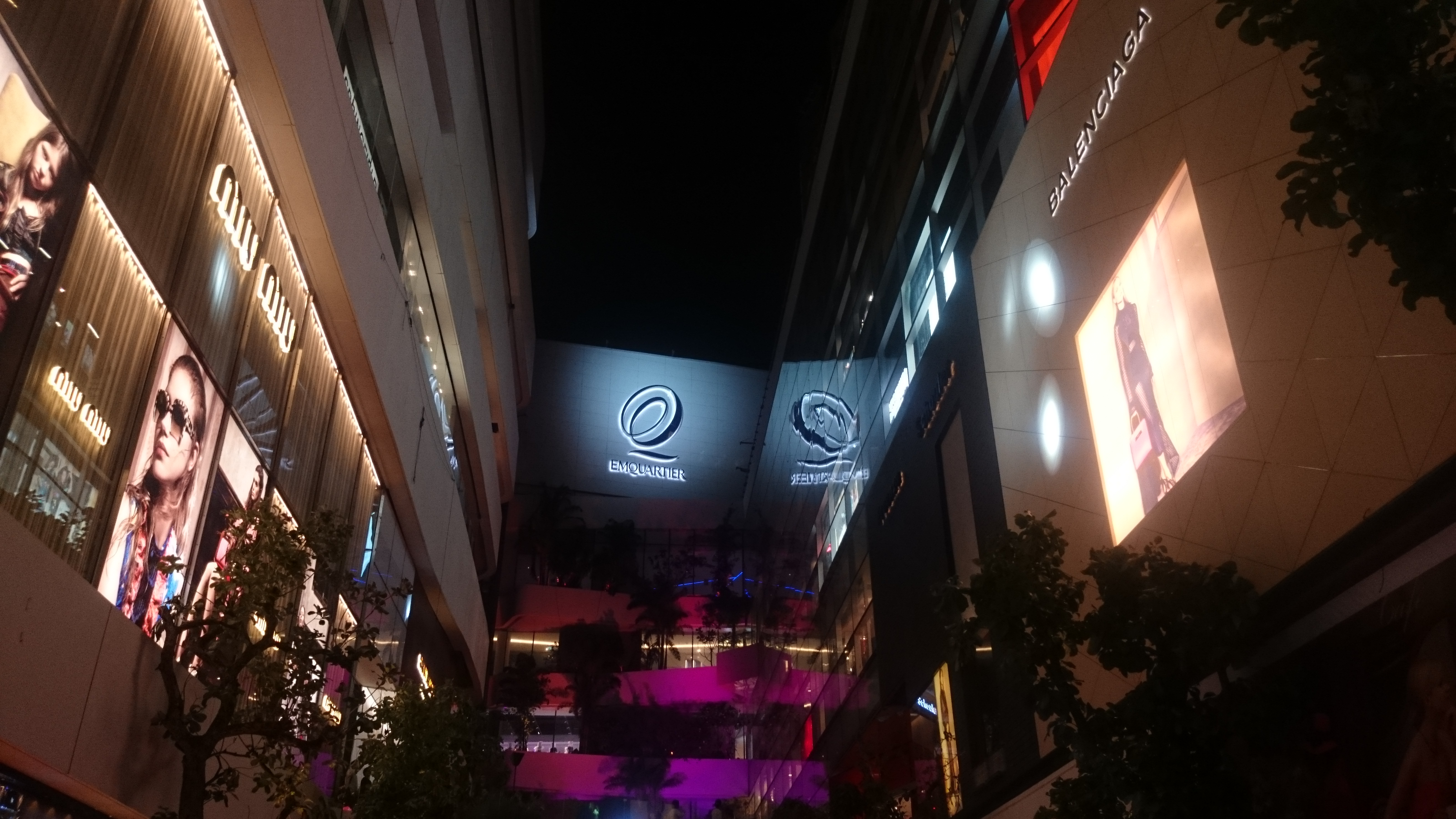 Helix Quartier Building (left), Waterfall Quartier Buliding (middile) and Glass Quartier Building (right) of Emquartier Shopping Center in Wattana, Bangkok, Thailand